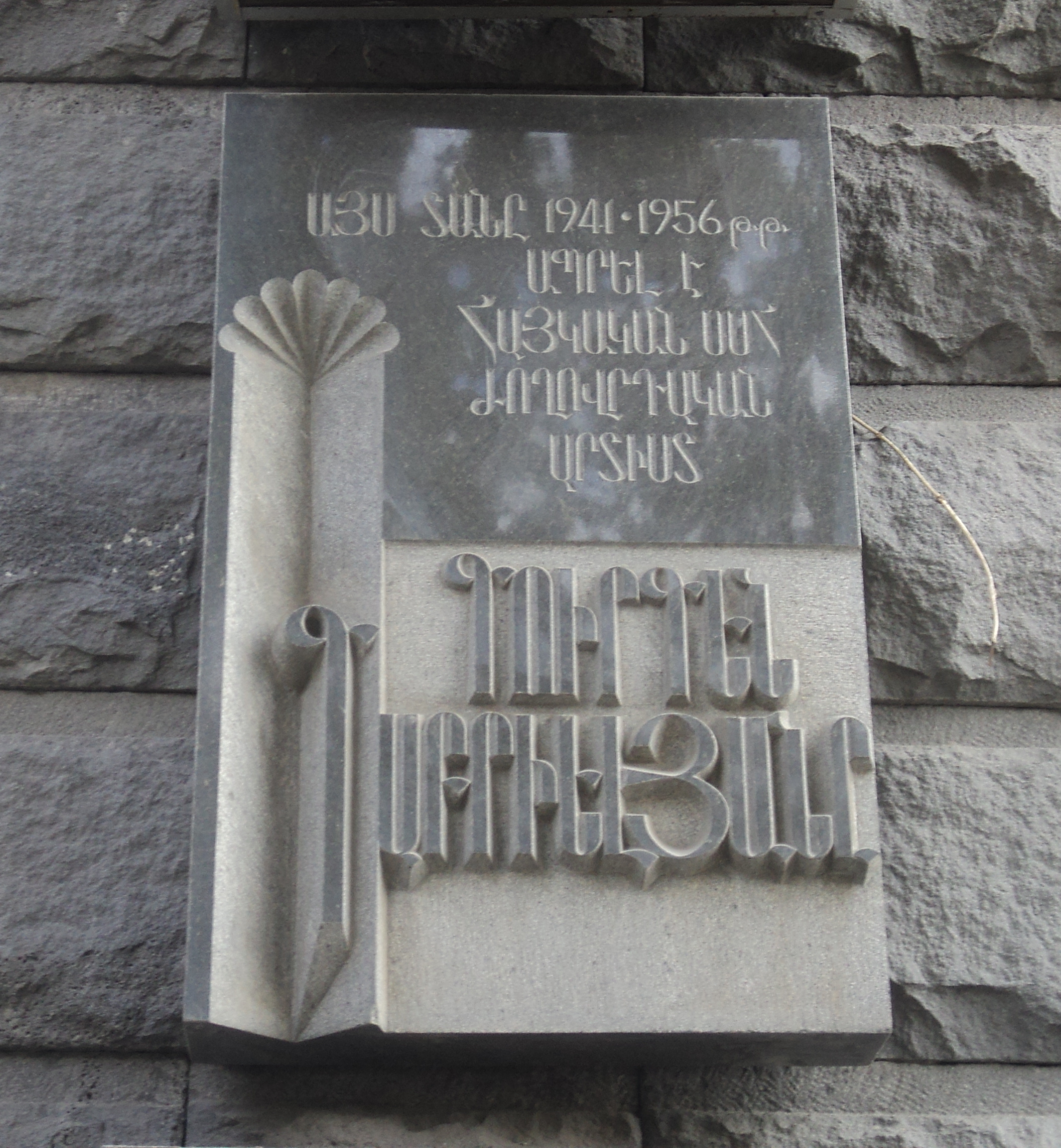 Gourgen Gabrielyan's plaque in Yerevan